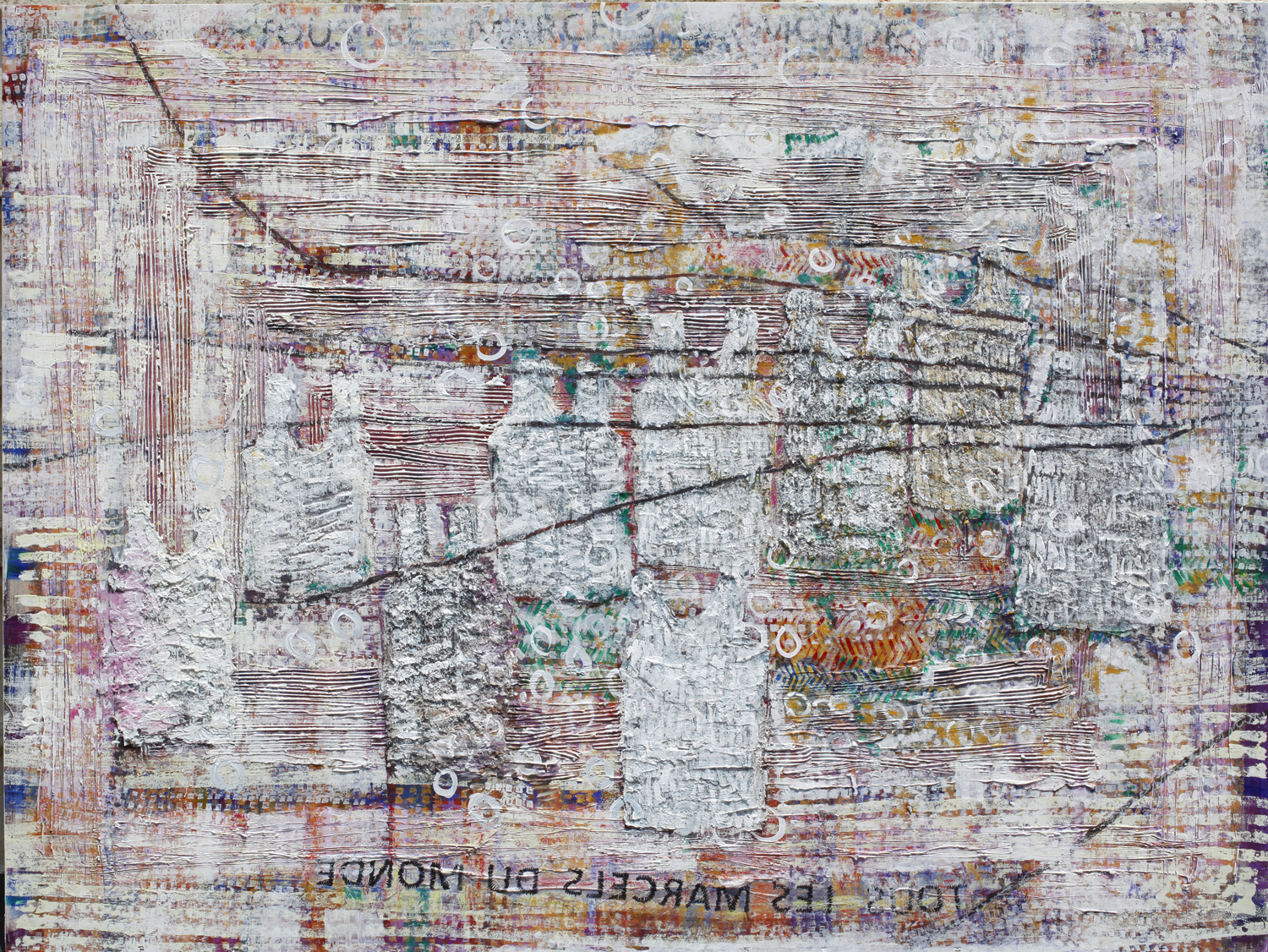 All World's Marcels, (Tous les Marcels du Monde), 2012, mixed media on plywood, 120X160